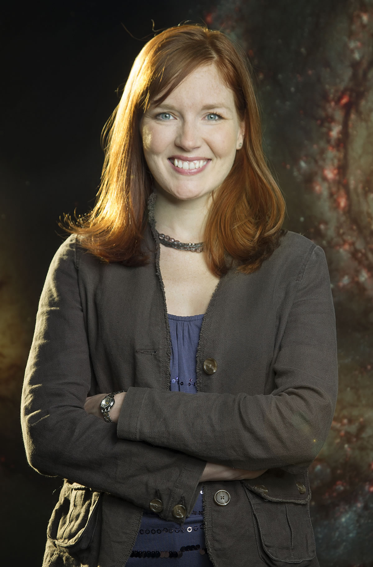 Profile photo of Dr. Amber Straughn, NASA Astrophysicist, Deputy Project Scientist For Communication For The Webb Telescope, and Associate Director Of The Astrophysics Science Division